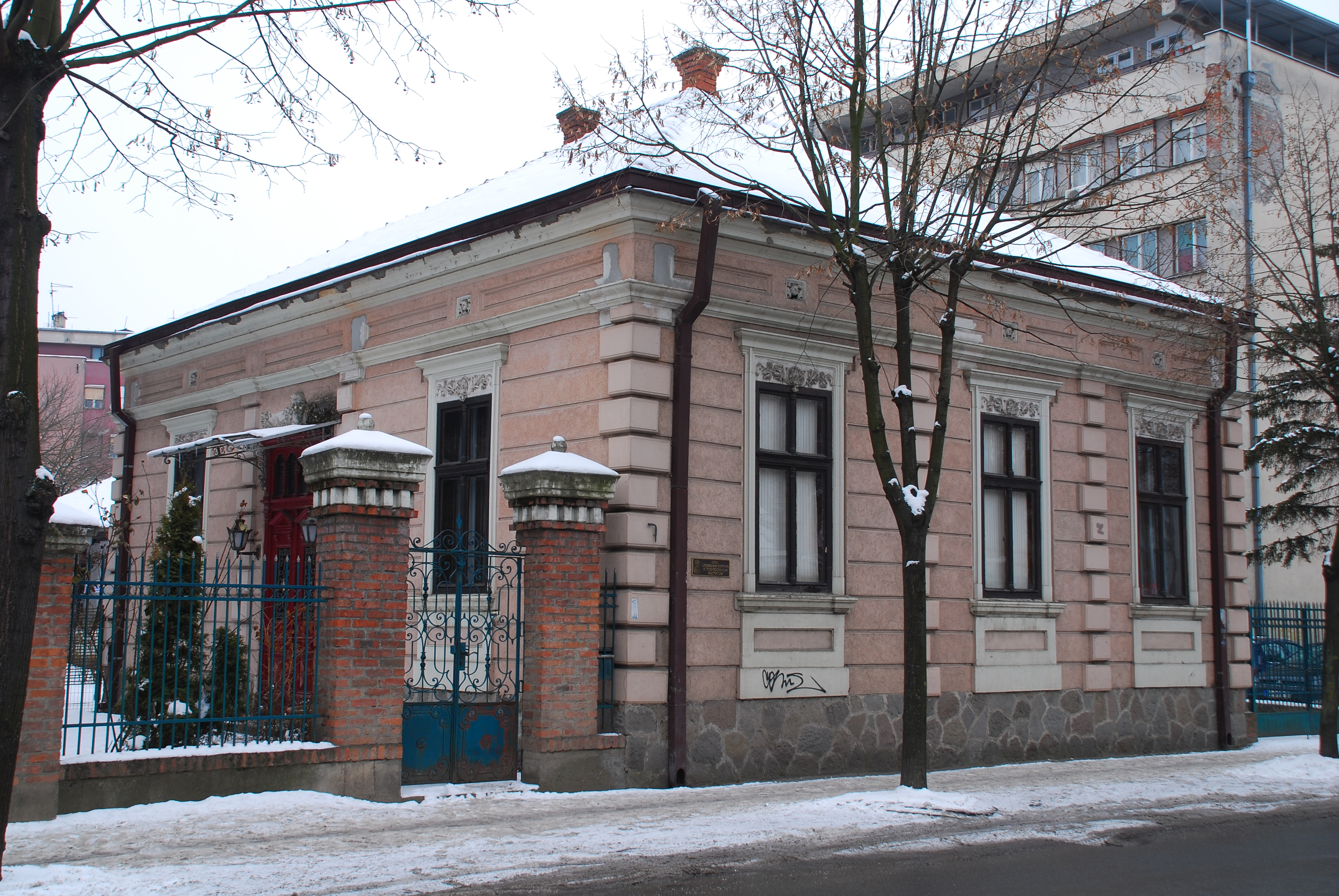 House of family Marković in Kraljevo, general look